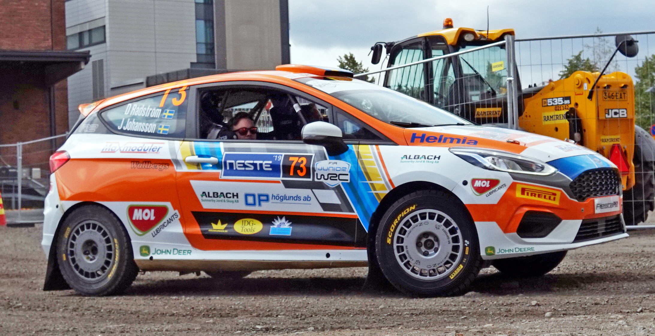 Ford Fiesta R2 (Dennis Rådström, Johan Johansson) during Neste Rally Finland in 3rd August 2019. Lutakko, Jyväskylä, Finland.